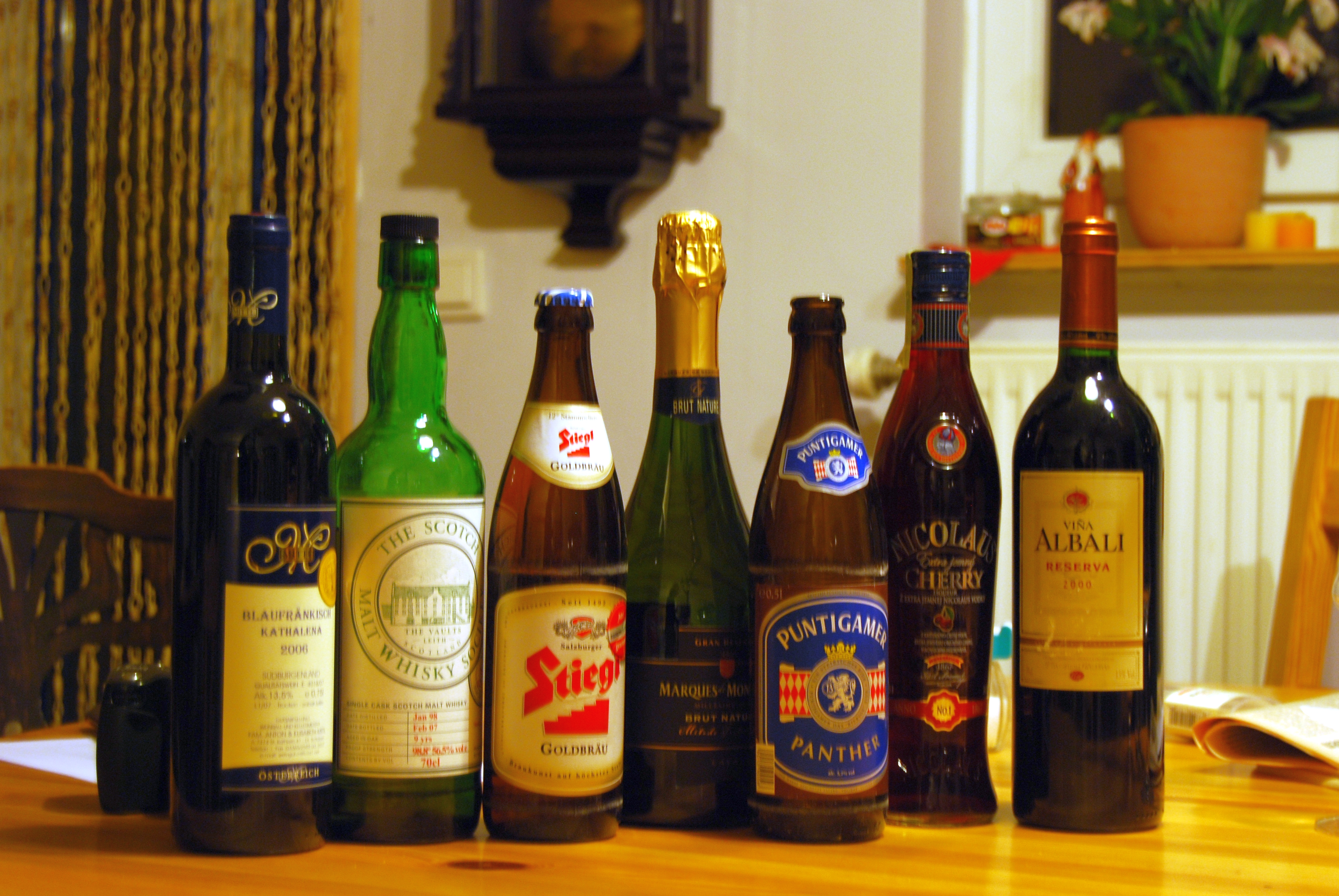 Alcoholic beverages